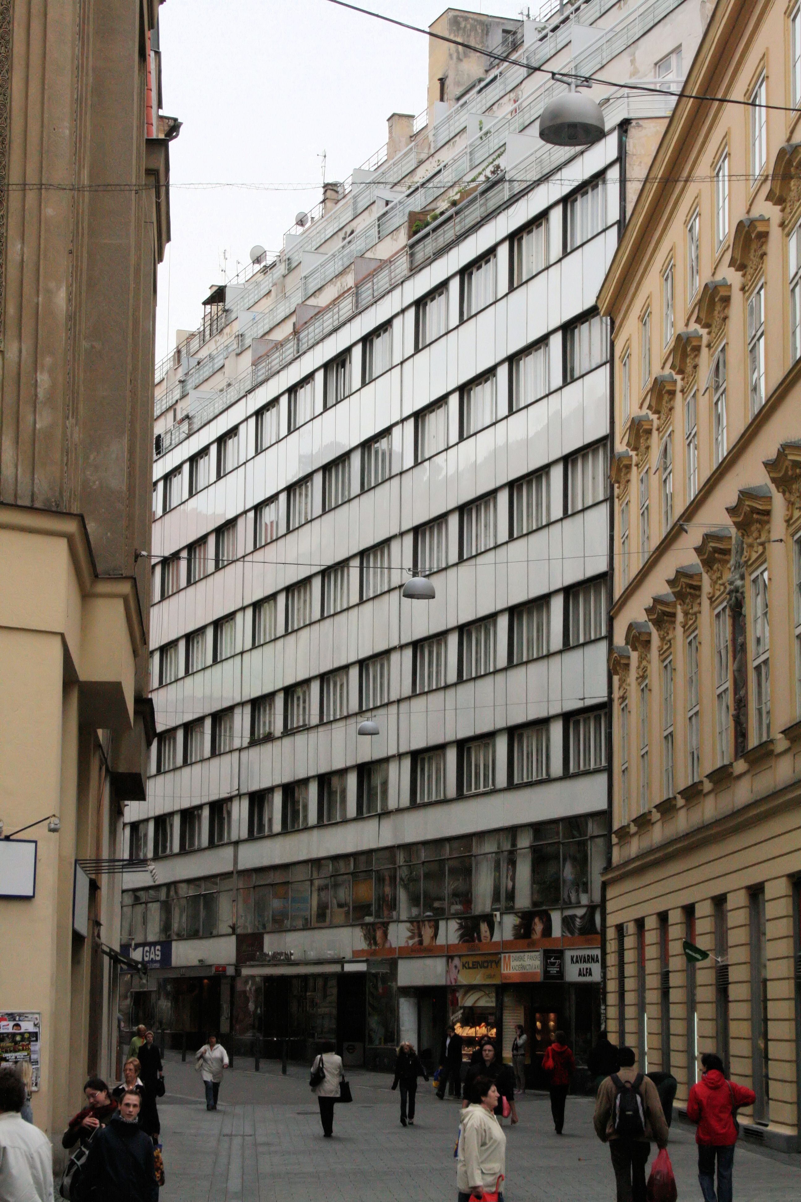 Alfa Palace at Jánská & Poštovská streets in Brno, Czech Republic. Functionalist polyfunctional building.